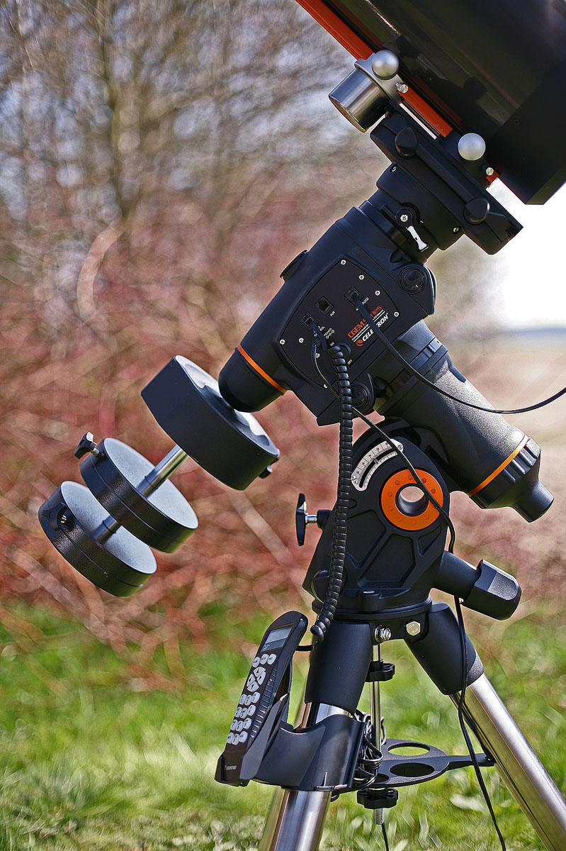 goto-mount celestron cgem